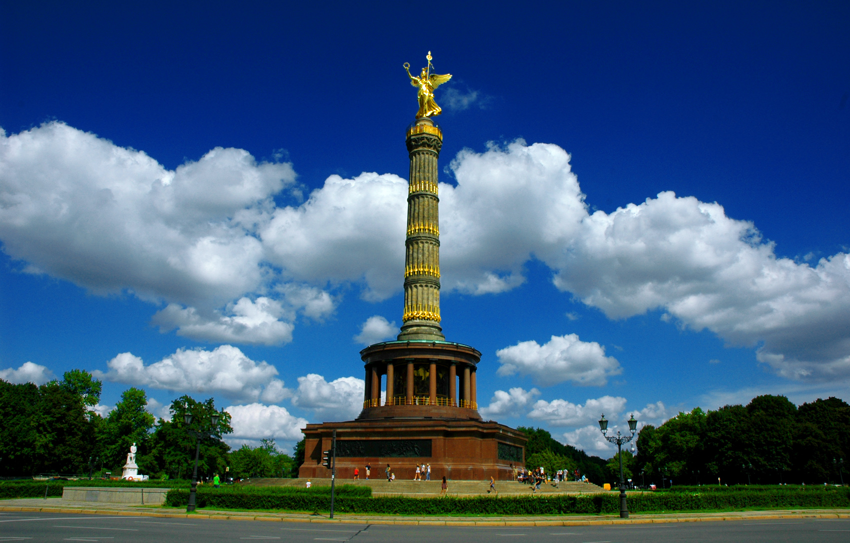 Berlin Victory Column